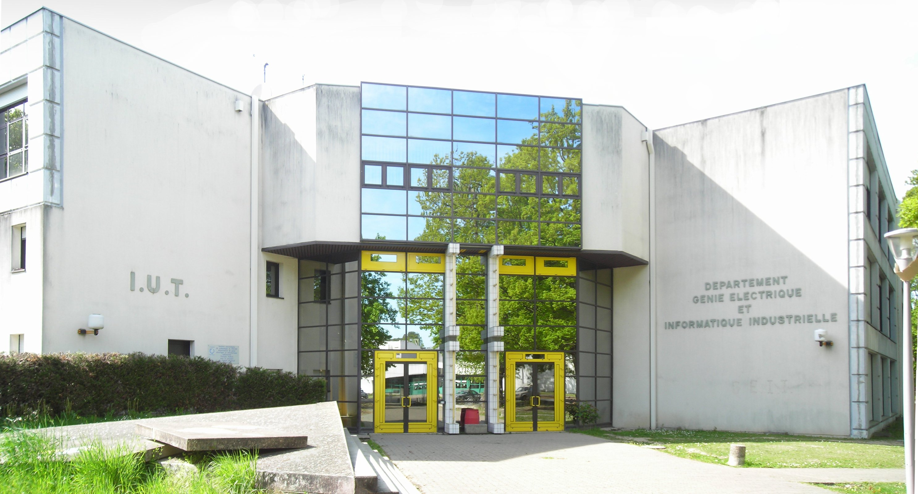 Tours University Institute of Technology, Industrial computing and Electrical Engineering Department